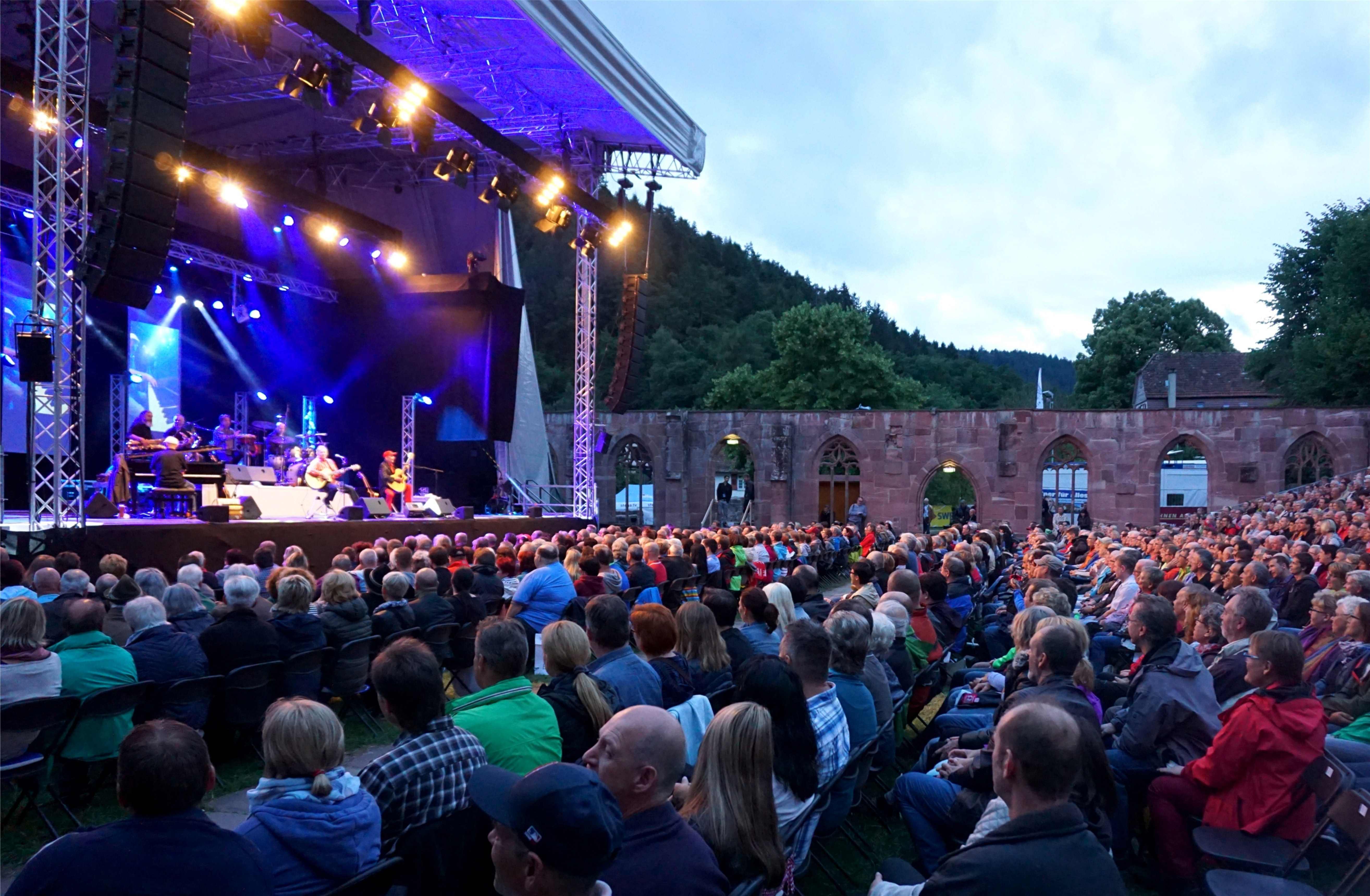 Spider Murphy Gang unplugged at Hirsau 2016 Germany)